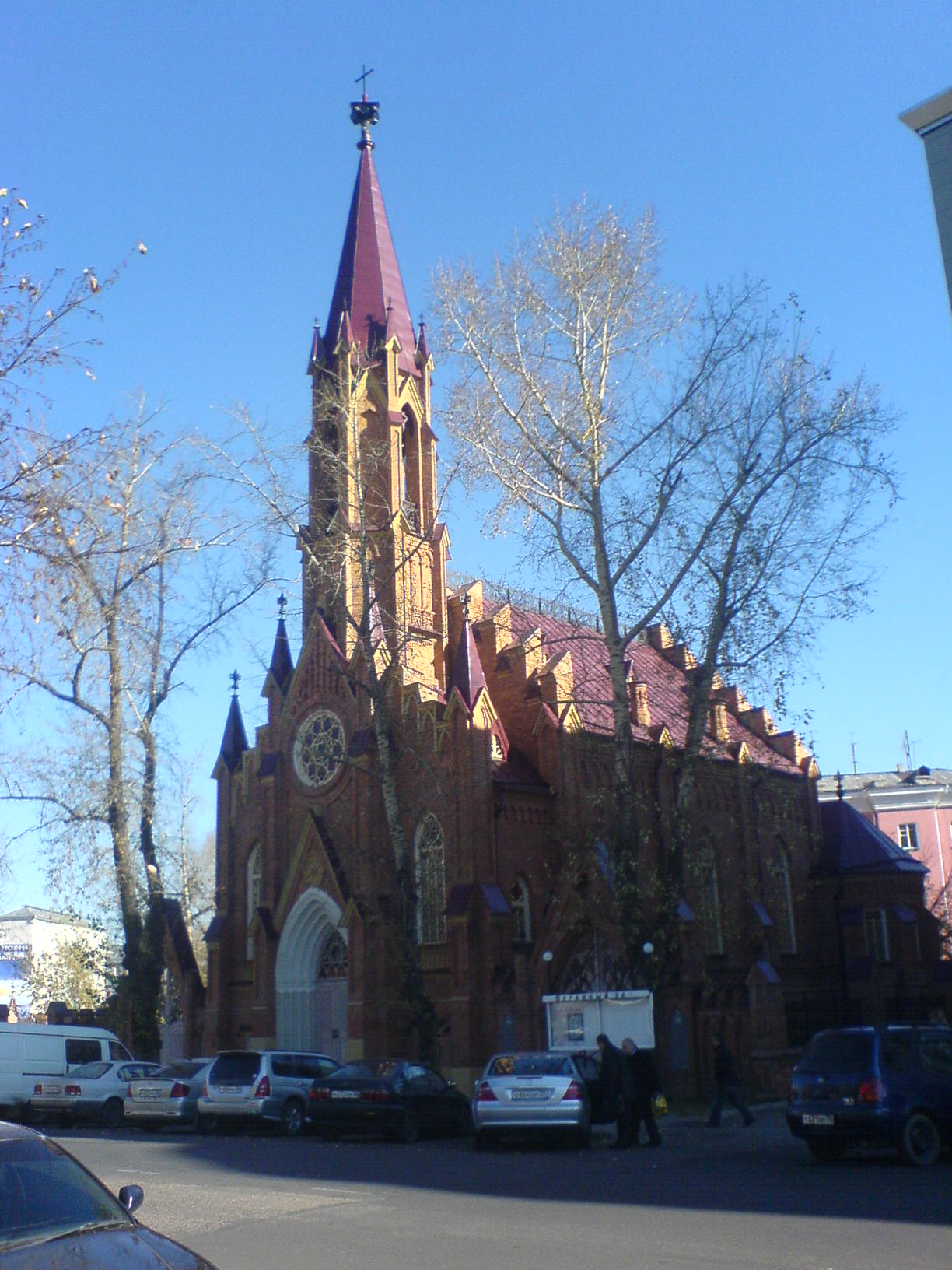 Polish church in Irkutsk